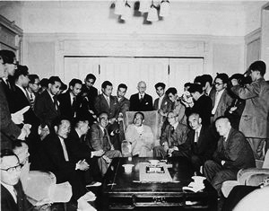 Japanese Prime Minister Ichirō Hatoyama (1883–1959, in office 1954–56, center), and the leaders of the ruling LDP, including Tanzan Ishibashi (to the left of Hatoyama) and Bukichi Miki (second to the right of Hatoyama), along with the press, in the salon of his private residence in Tokyo, known as the Otowa Mansion.